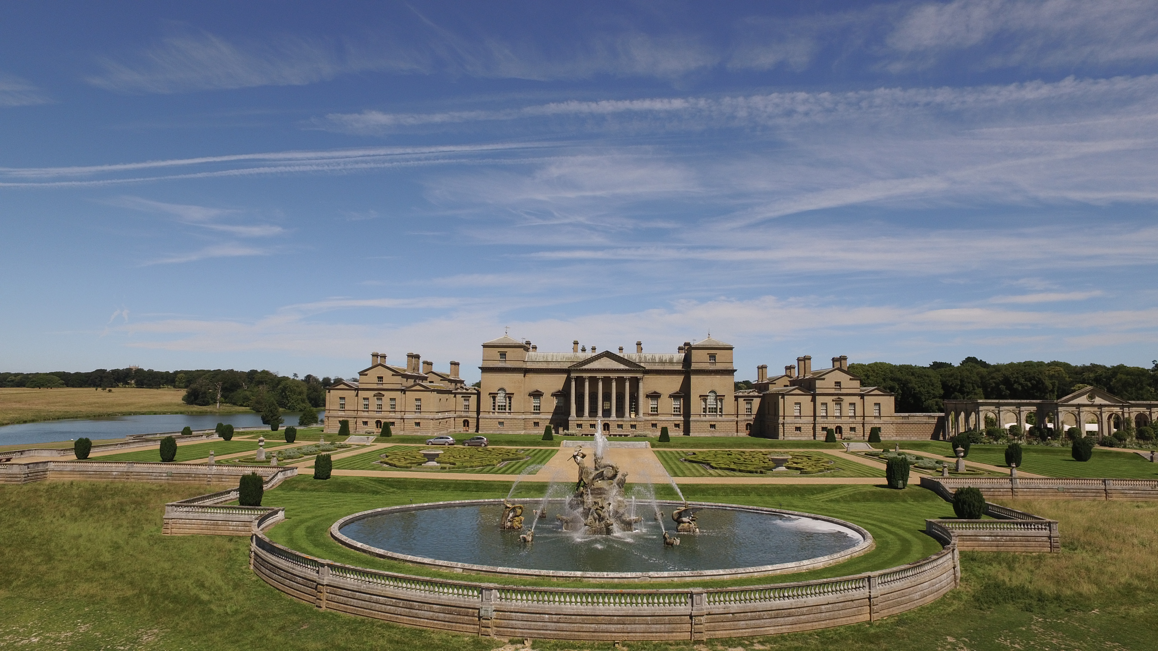 The south view of Holkham Hall.